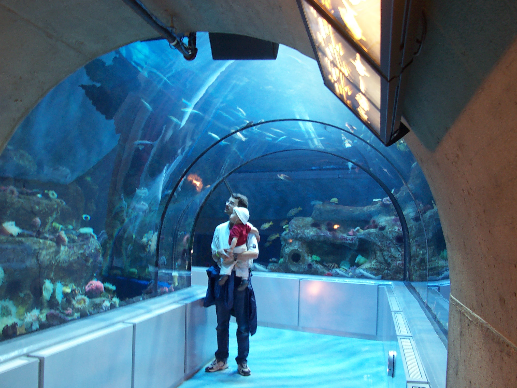 Parc aquarium du Québec (Quebec Aquarium) (Quebec City, Québec, Canada): The "Great Ocean" aquarium (June 2006)